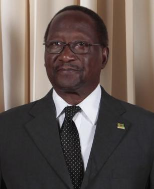 Darren Newman